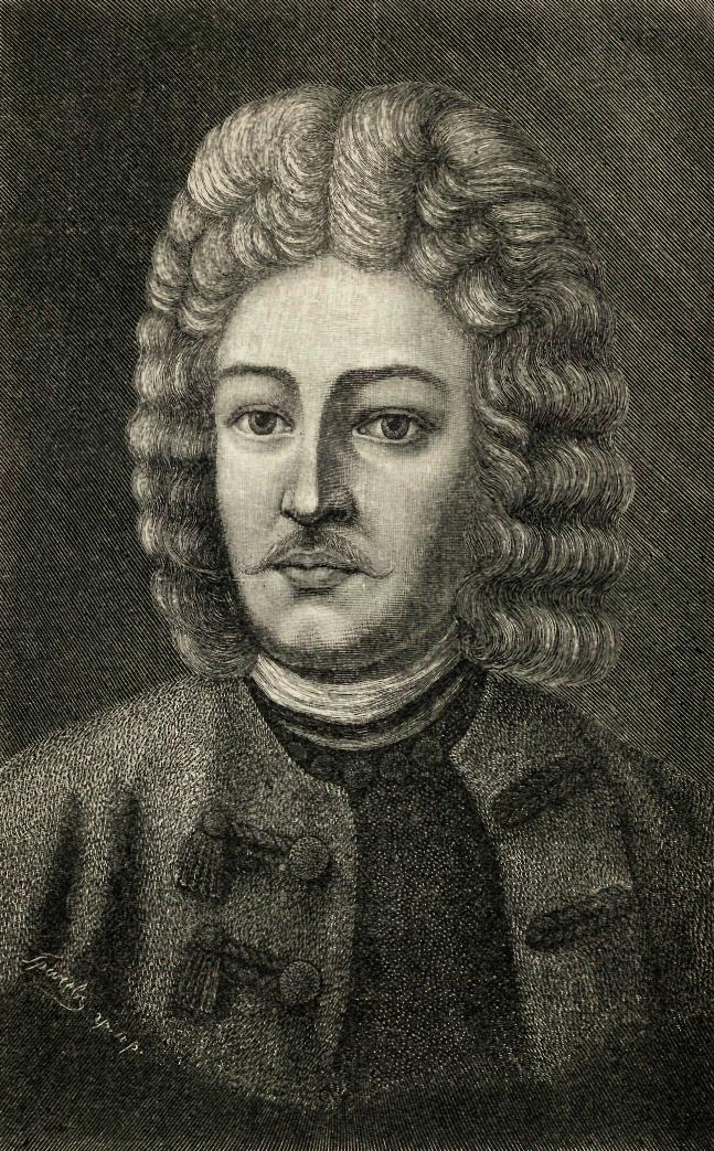 Pyotr Eropkin